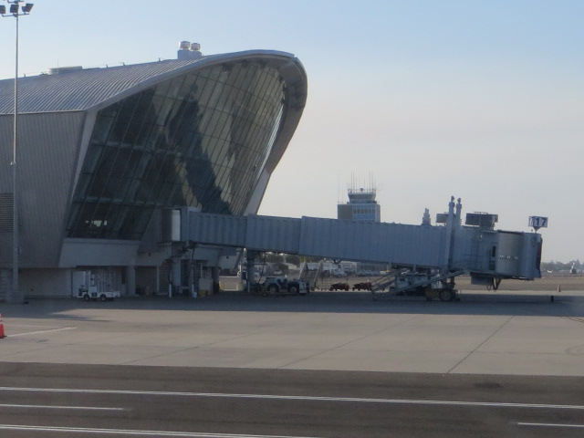 The main terminal building at Fresno/Yosemite International Airport